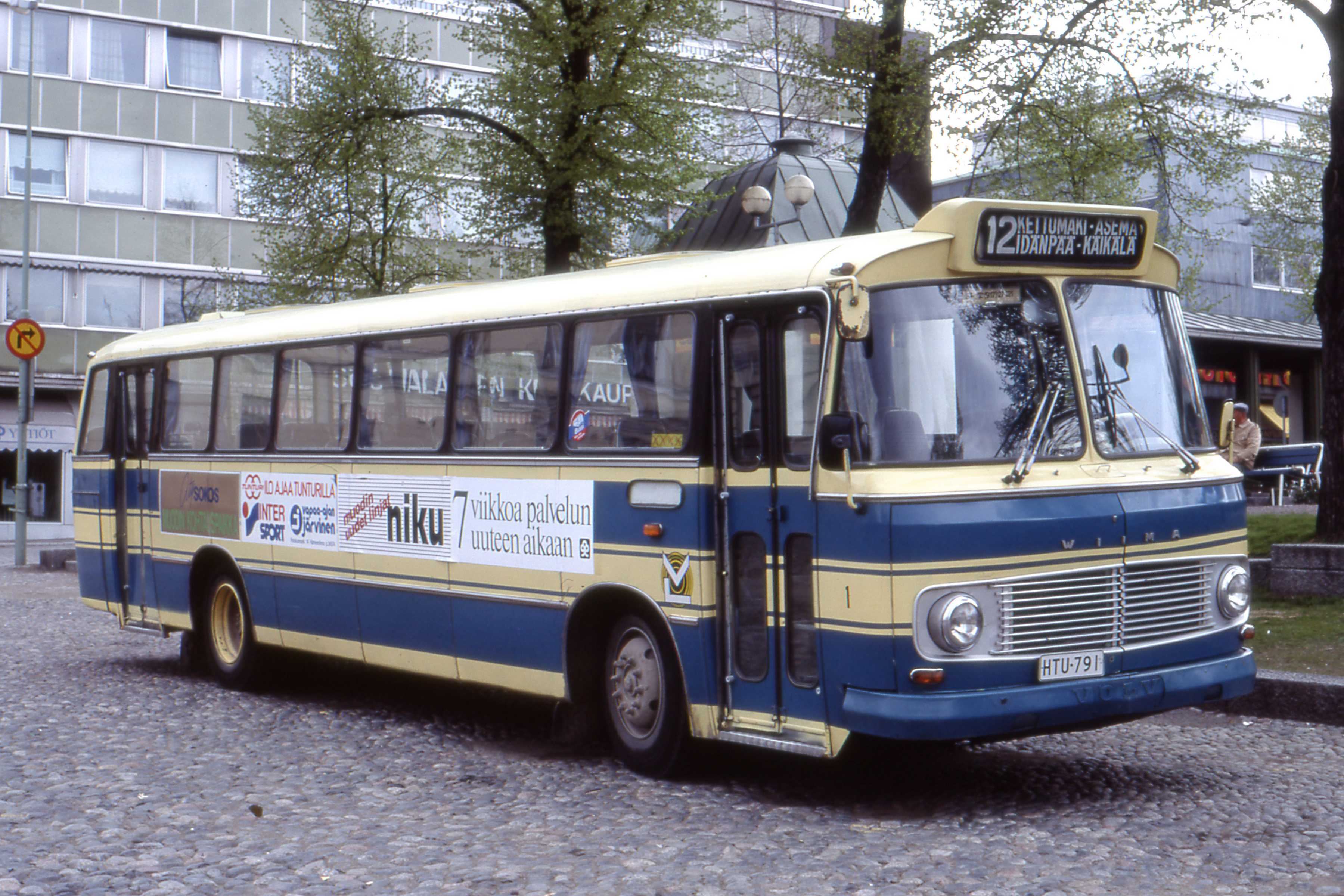 Possibly Hämeen Linja no. 1 (Volvo B57/Wiima M68, HTU-791, 1976) in Hämeenlinna, Finland, in 1987.